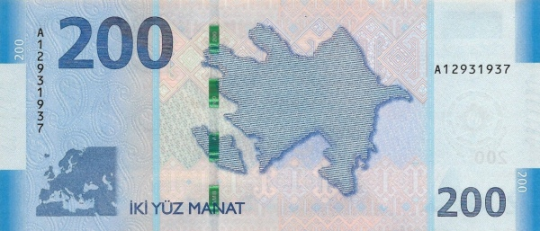 200 Azerbaijani manat in 2018 Reverse